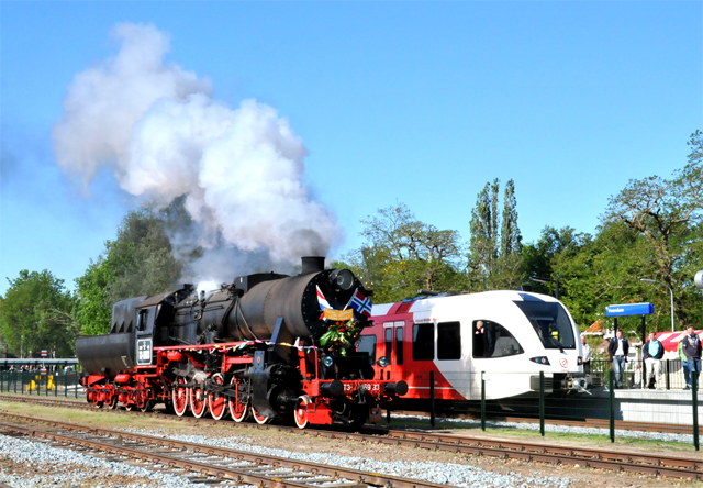 Departure Arriva 244 (Anthony Winkler Prins) to Groningen flanked by STAR steam locomotive ТЭ-5933 (former russian Br. 52) in Veendam.